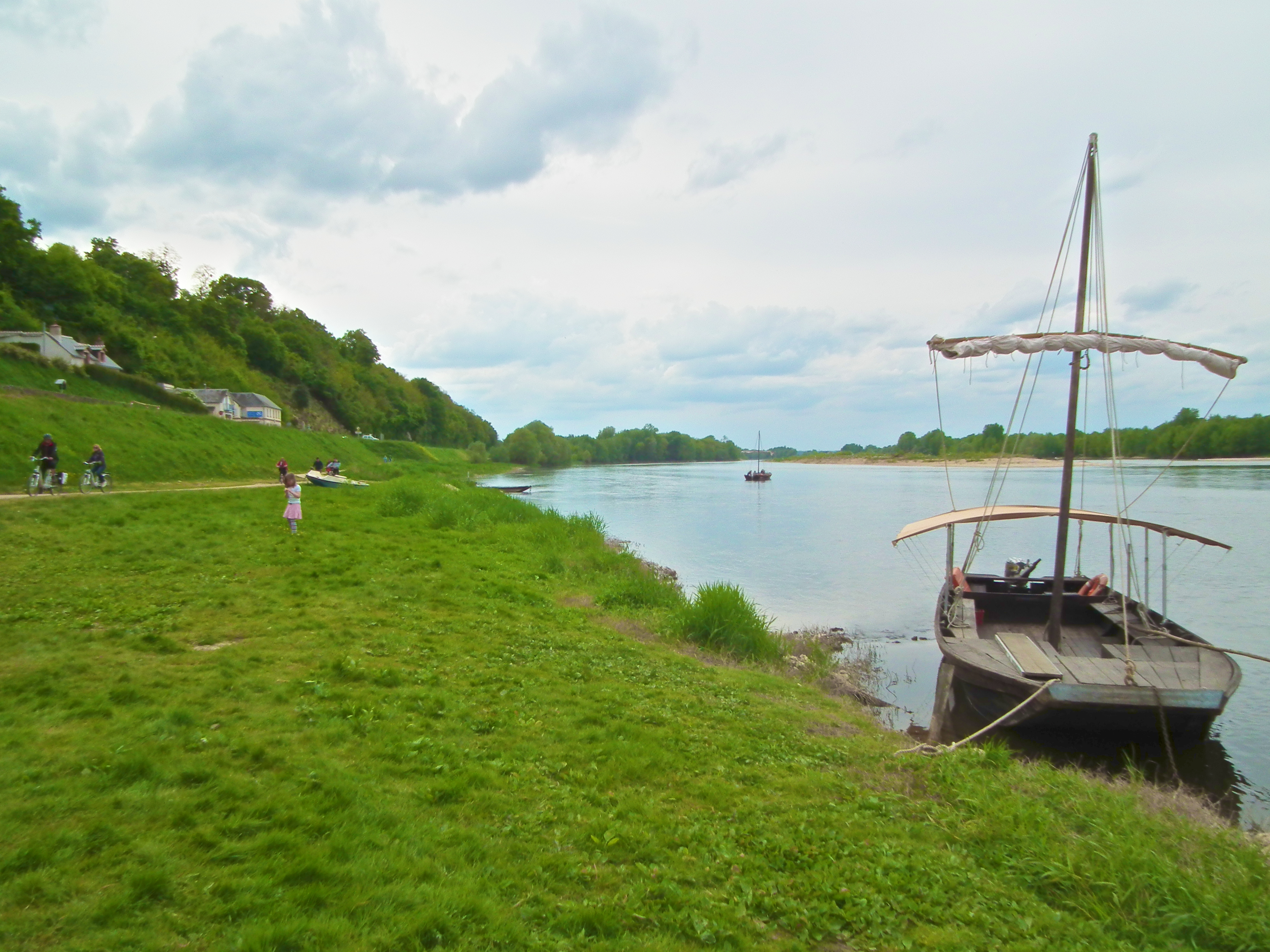 Typical Gabare boat of the Loire river